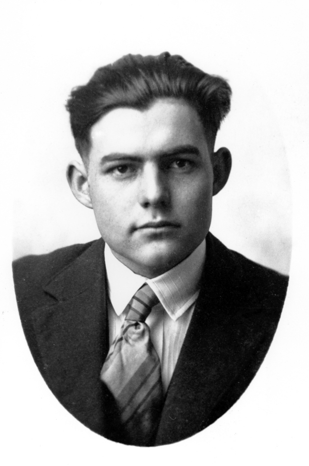 Portrait of Ernest Hemingway, circa 1917.